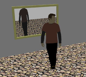 Sample of mirror like reflection in a rendering